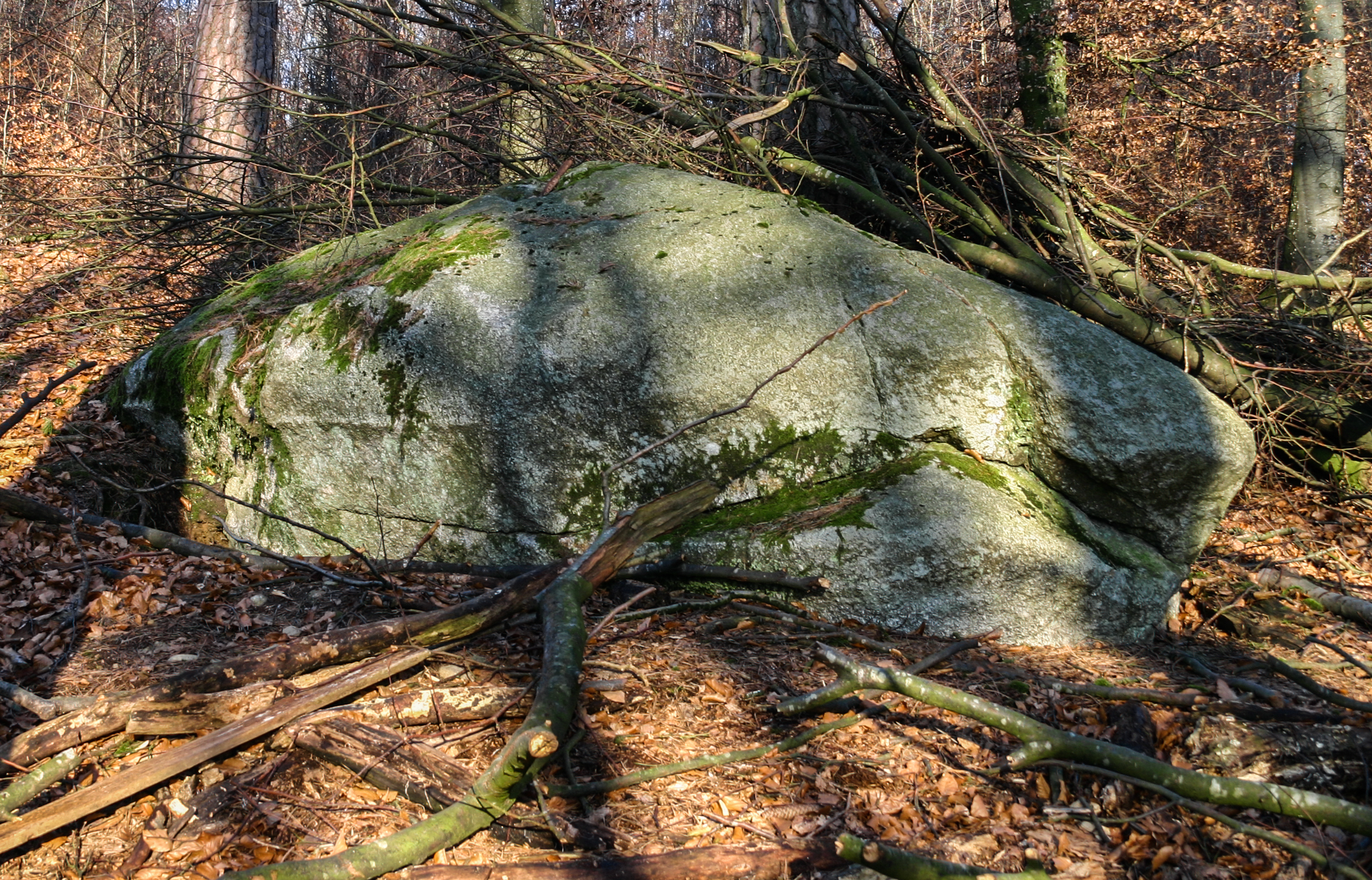 Earthworks Drackenstein, near Tettnang-Laimnau, county Bodenseekreis, Germany